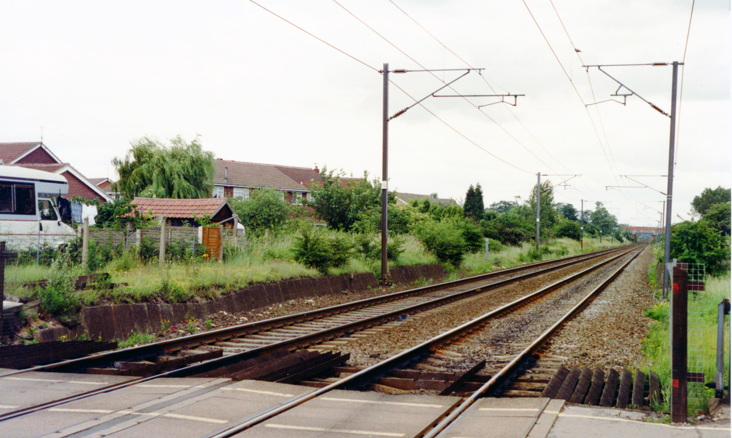 Site of former Rossington station, East Coast Main Line 1992. View SE at the level-crossing of the .. road, towards Retford, Grantham and London: ex-GNR London - Doncaster section of the ECML, electrified 1987. Merely some of the Up platform seems to remain of the station, which was closed to passengers 6/10/58, to goods 27/5/63